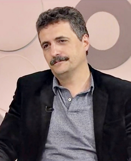 Kleber Mendonça Filho, Brazilian film director.